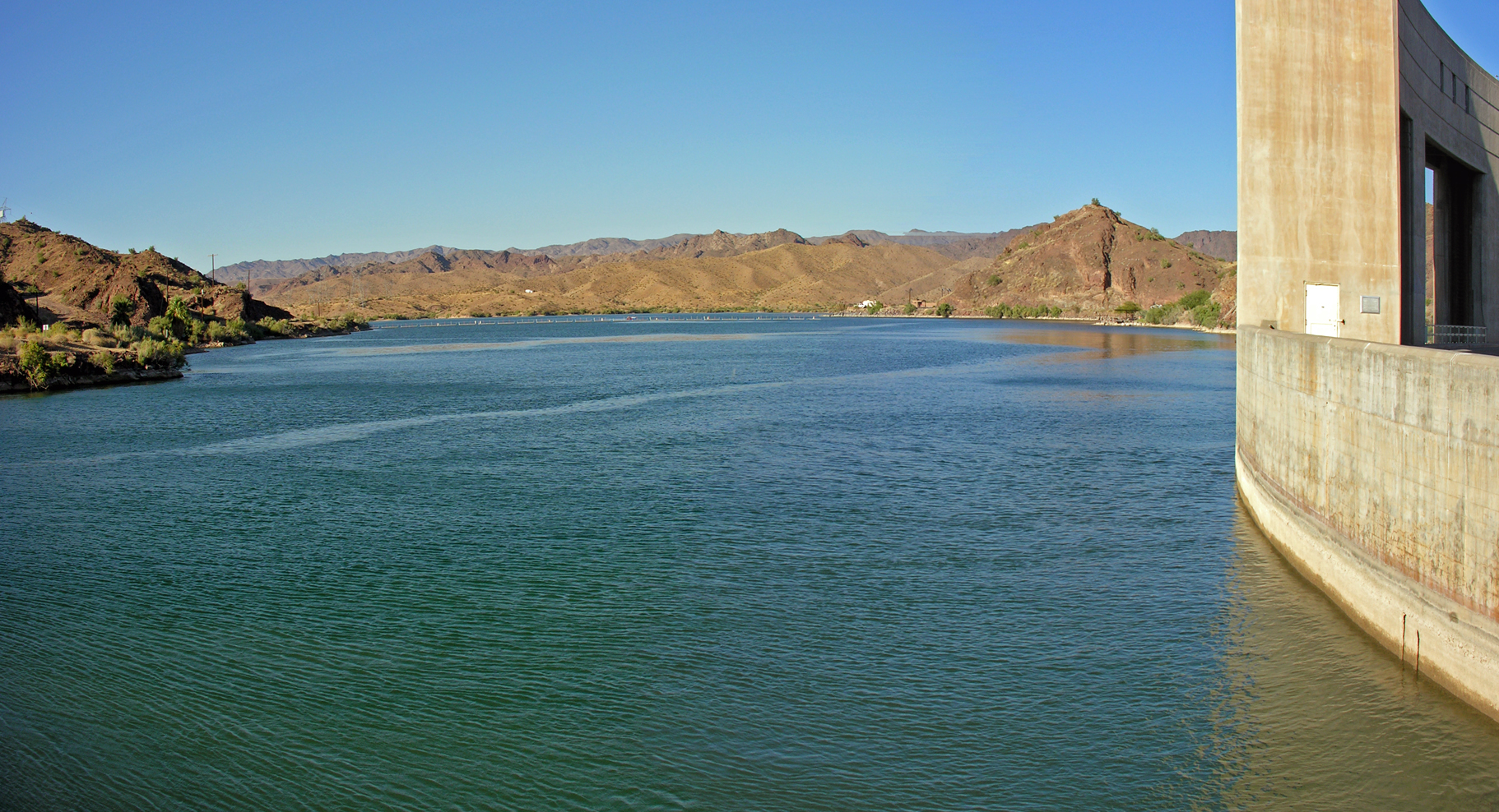 This is a picture of Lake Havasu, which is on the border between Arizona and California, near Lake Havasu City, Arizona. The lake is formed by Parker Dam on the Colorado River. The picture was taken from Parker Dam, which can be seen on the right. A barrier to keep boats away from the dam can be seen in the distance. The picture was taken by me on September 16, 2005. I give permission for the picture to be used with attribution under the GFDL and Creative Commons.